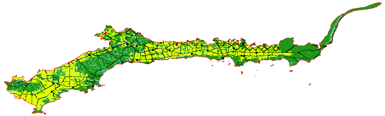 This is a map showing internal detail of the Interim Biogeographic Regionalisation of Australia (IBRA) Esperance Plains region. Areas that are predominantly given over to agriculture are shown in yellow; those that are still native vegetation are green; barren areas are light brown. Roads, railway lines, towns, watercourses and lakes are also shown.